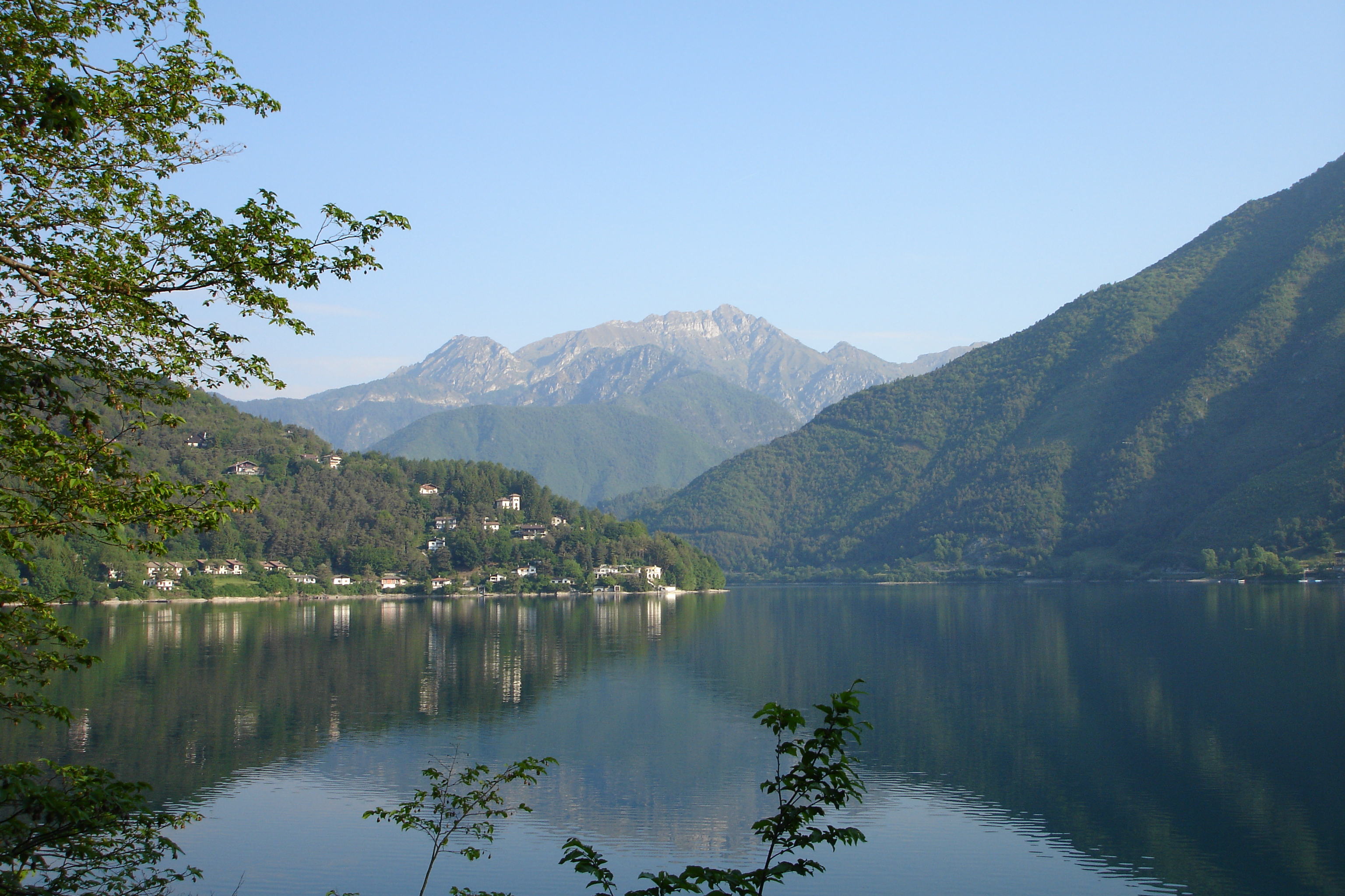 View on Monte Cadria